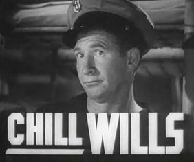 Cropped screenshot of Chills Wills from the trailer for the film Stand by for Action.